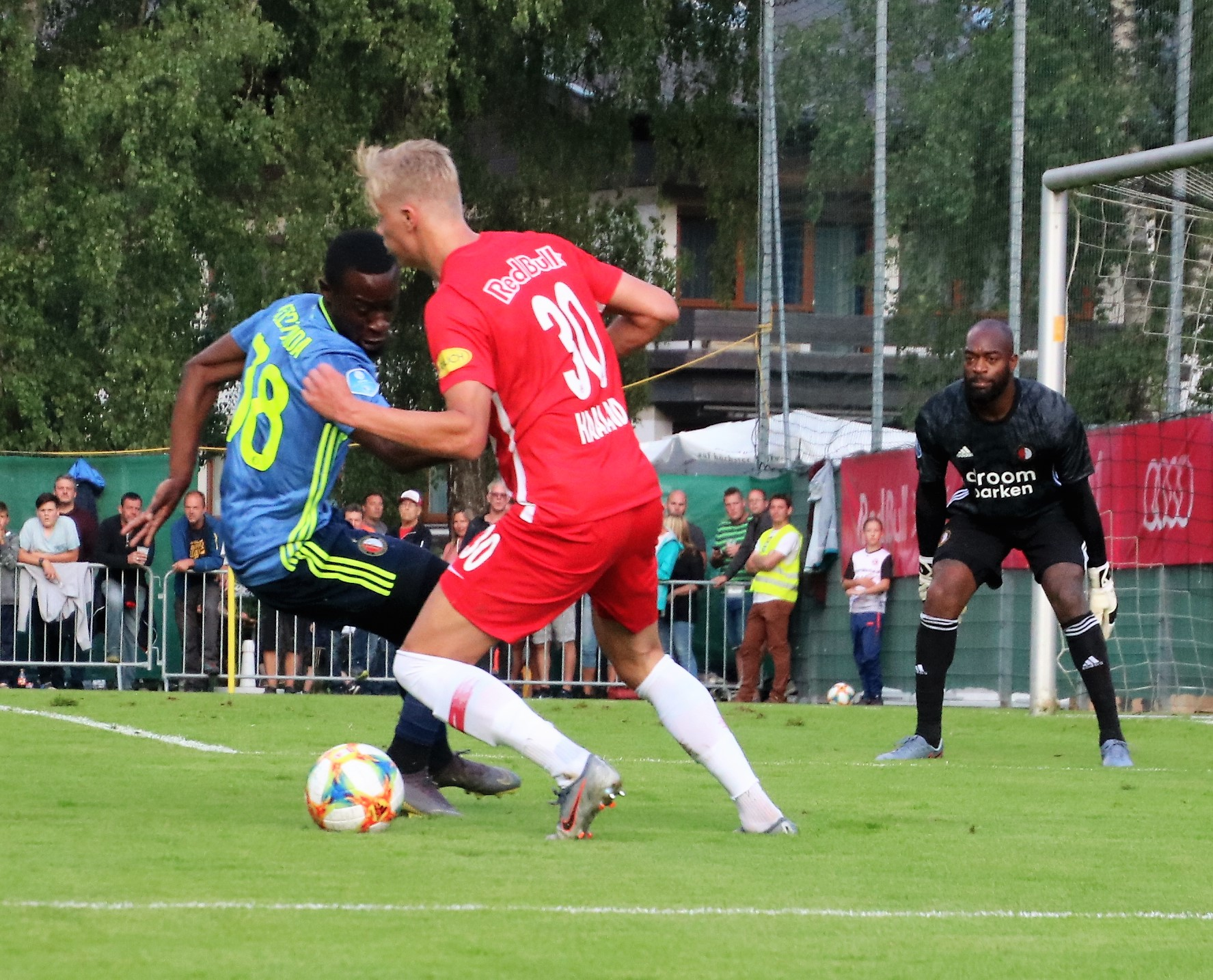 Preseason match in Leogang